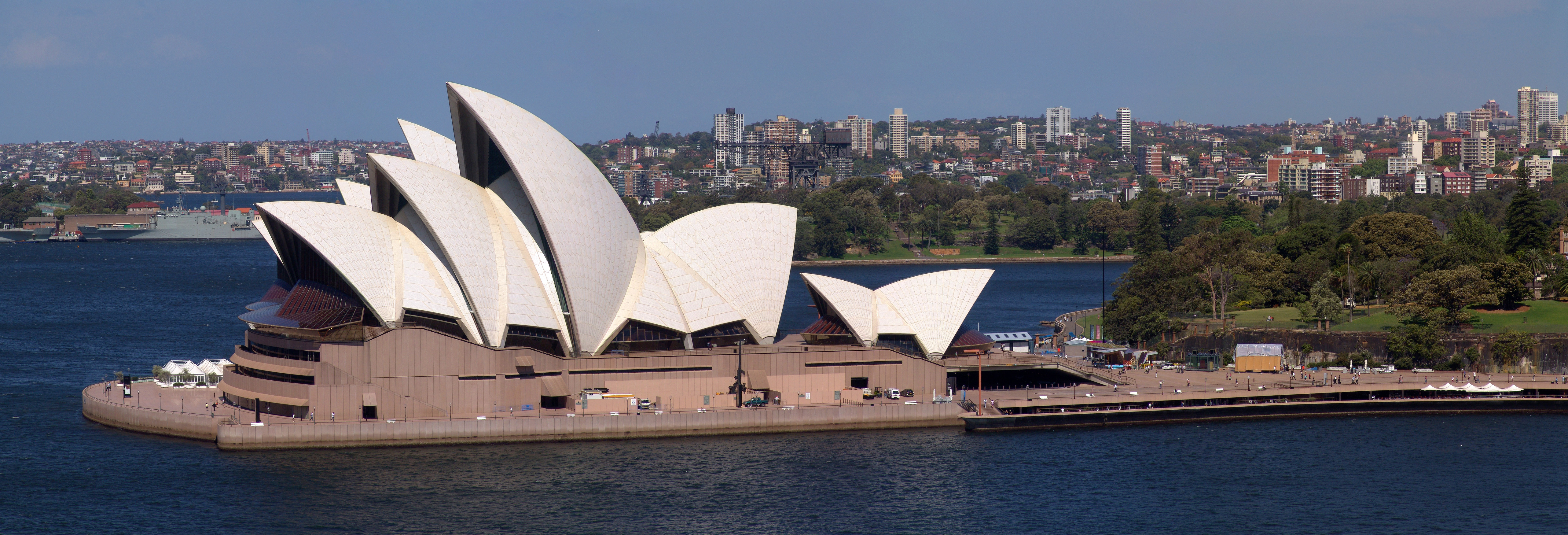 The famous Opera House of Sydney, here as panoramic image seen from the Harbour bridge.